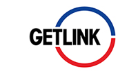 The 2017 rebranded logo for Groupe Eurotunnel as Getlink